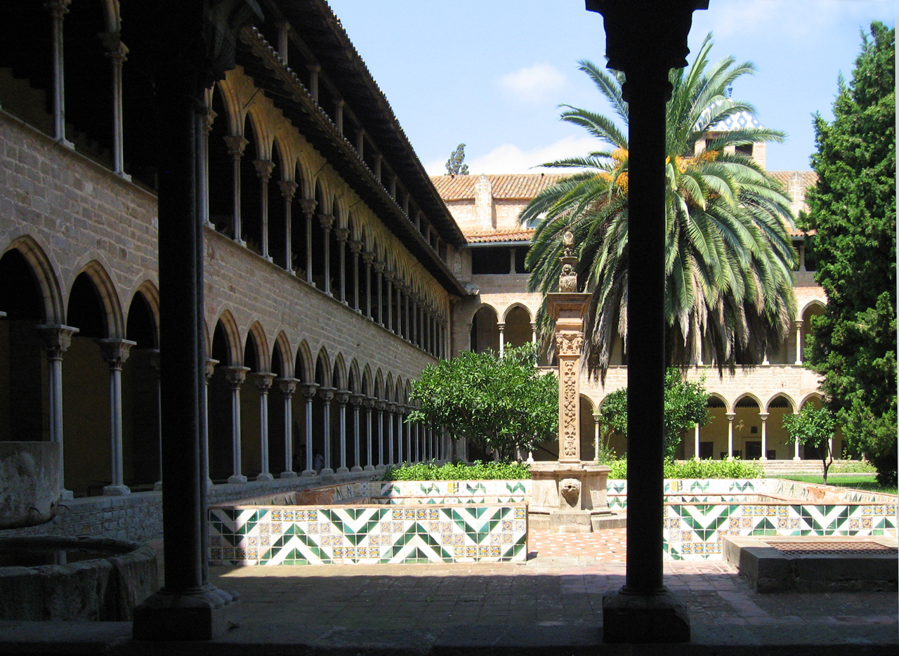 Inner courtyard of the Monastery of Pedralbes; Barcelona, Spain